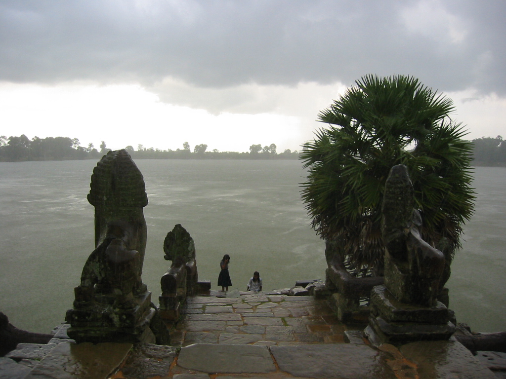 The Srah Srong reservoir of Angkor, Cambodia (Samuel Maddox, Canon PowerShot330)